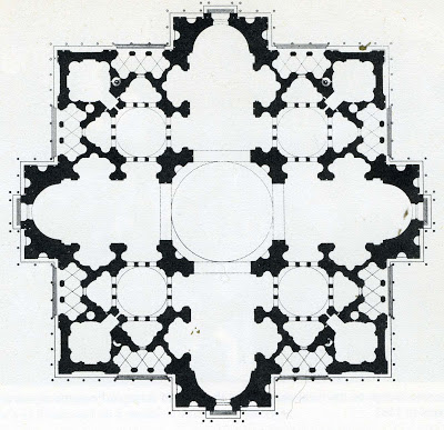 Bramante, plain for St. Peter